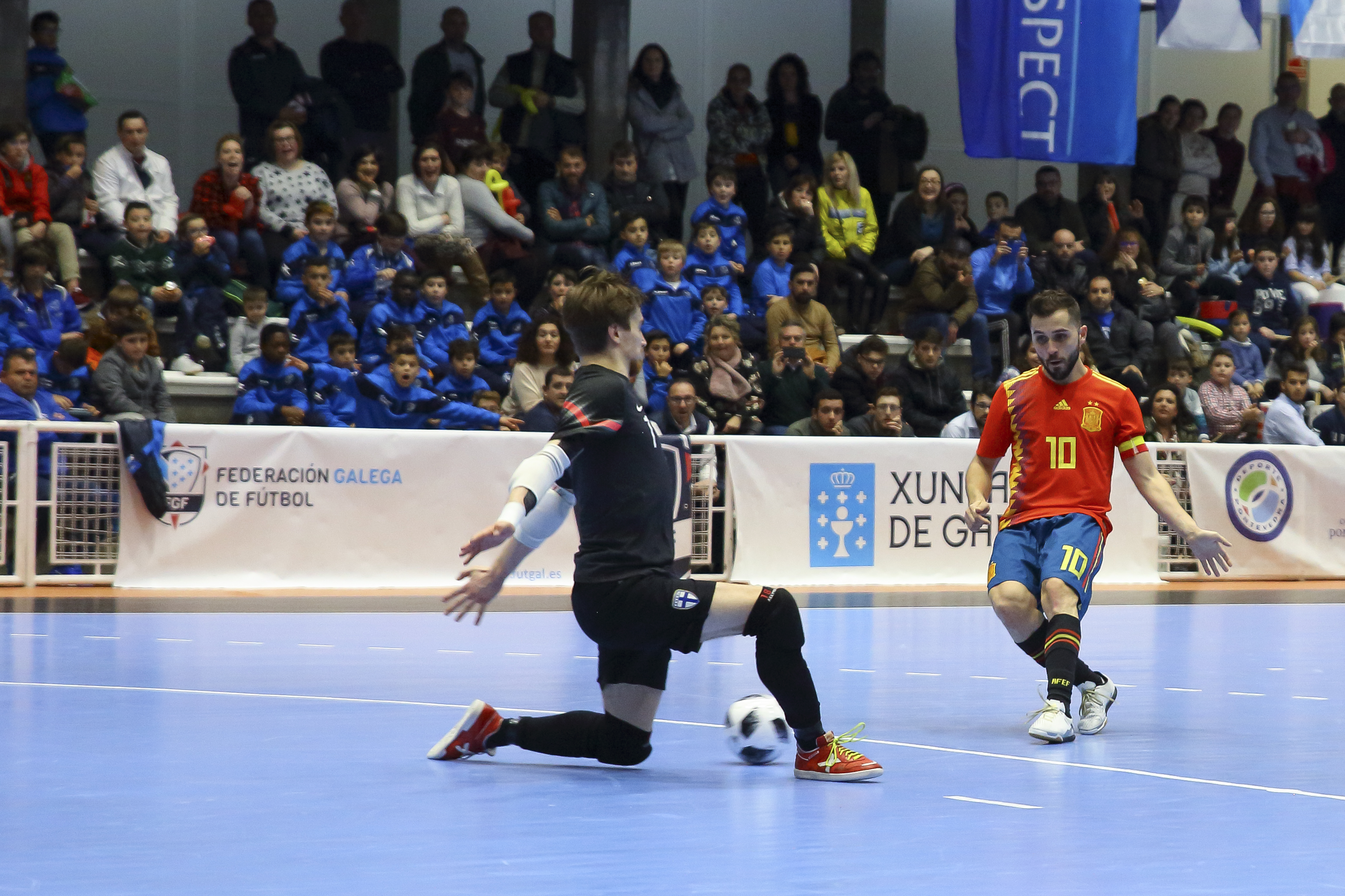 Futsal international friendly match between Spain and Finland at Pabellon Municipal de Pontevedra on April 2, 2018 in Pontevedra, Spain.